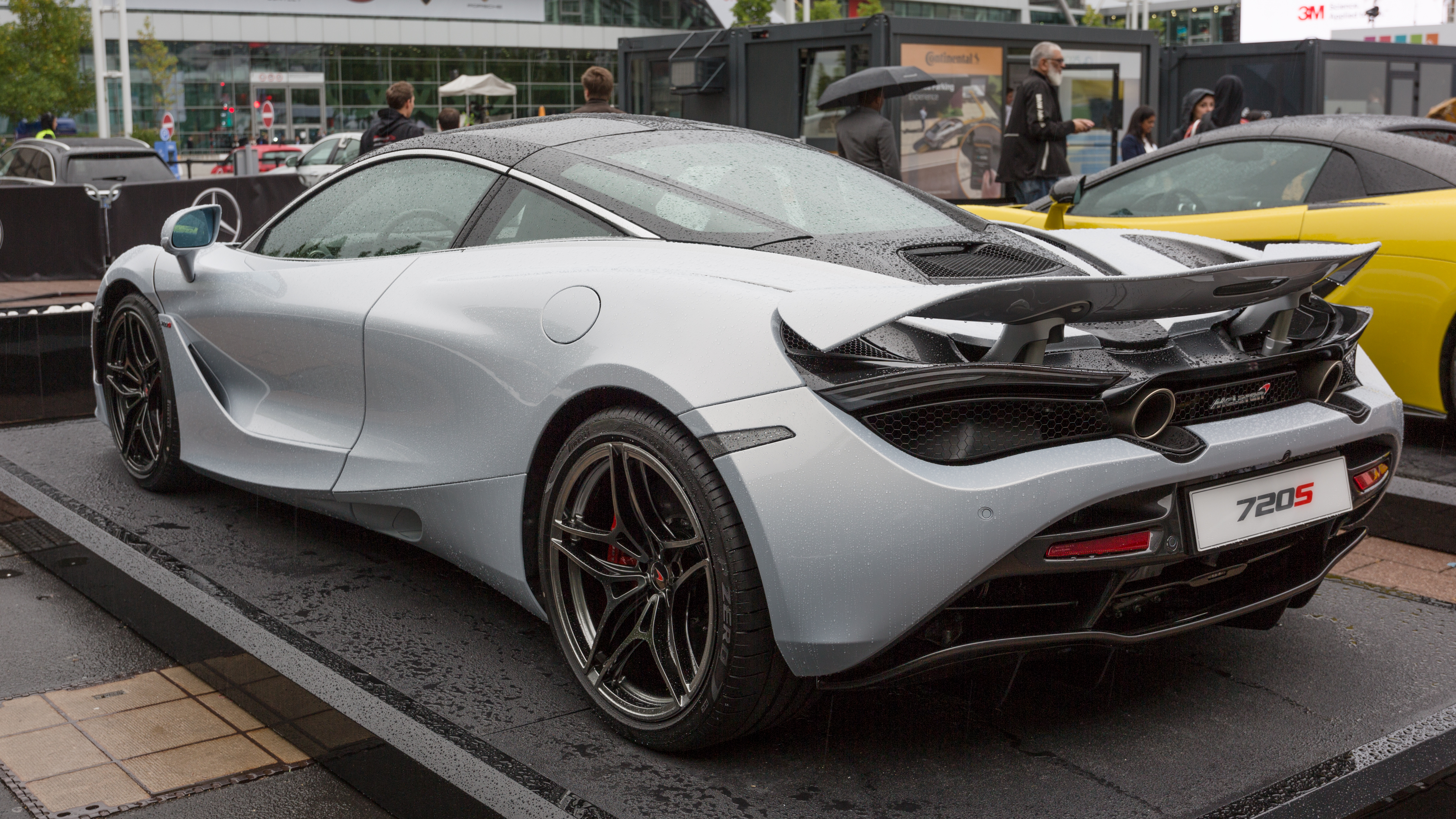 McLaren 720S, IAA 2017